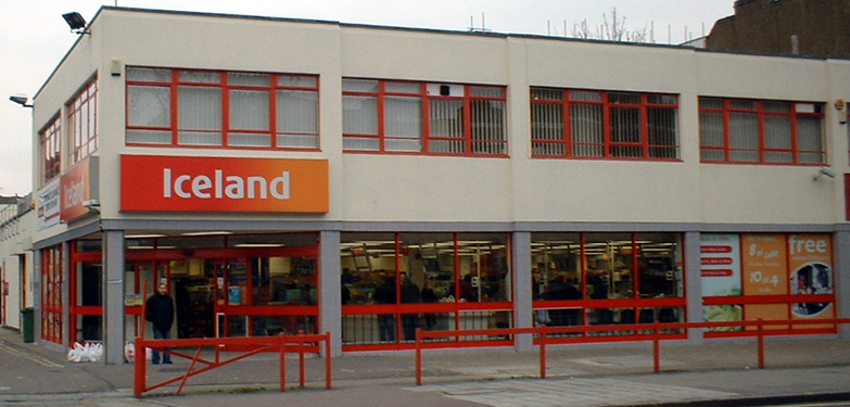 Iceland Supermarket frontage, Camberwell Road, South London. Taken by C Ford, 21st February 2004.